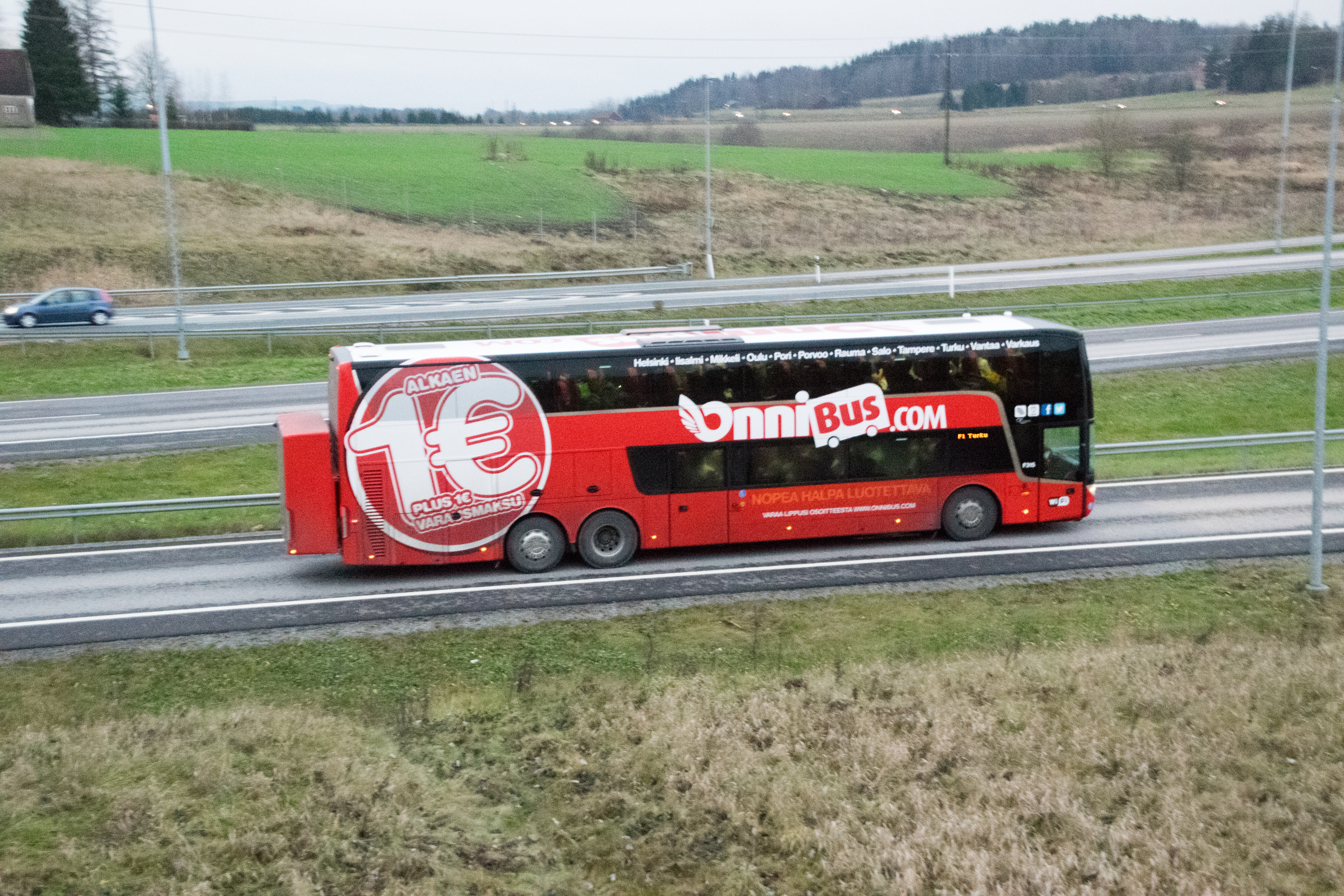 A double-decker of the Finnish bus company driving on the highway between Helsinki and Turku on line F1 from Helsinki to Turku.